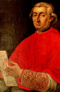 Fabrizio Ruffo, 18th century